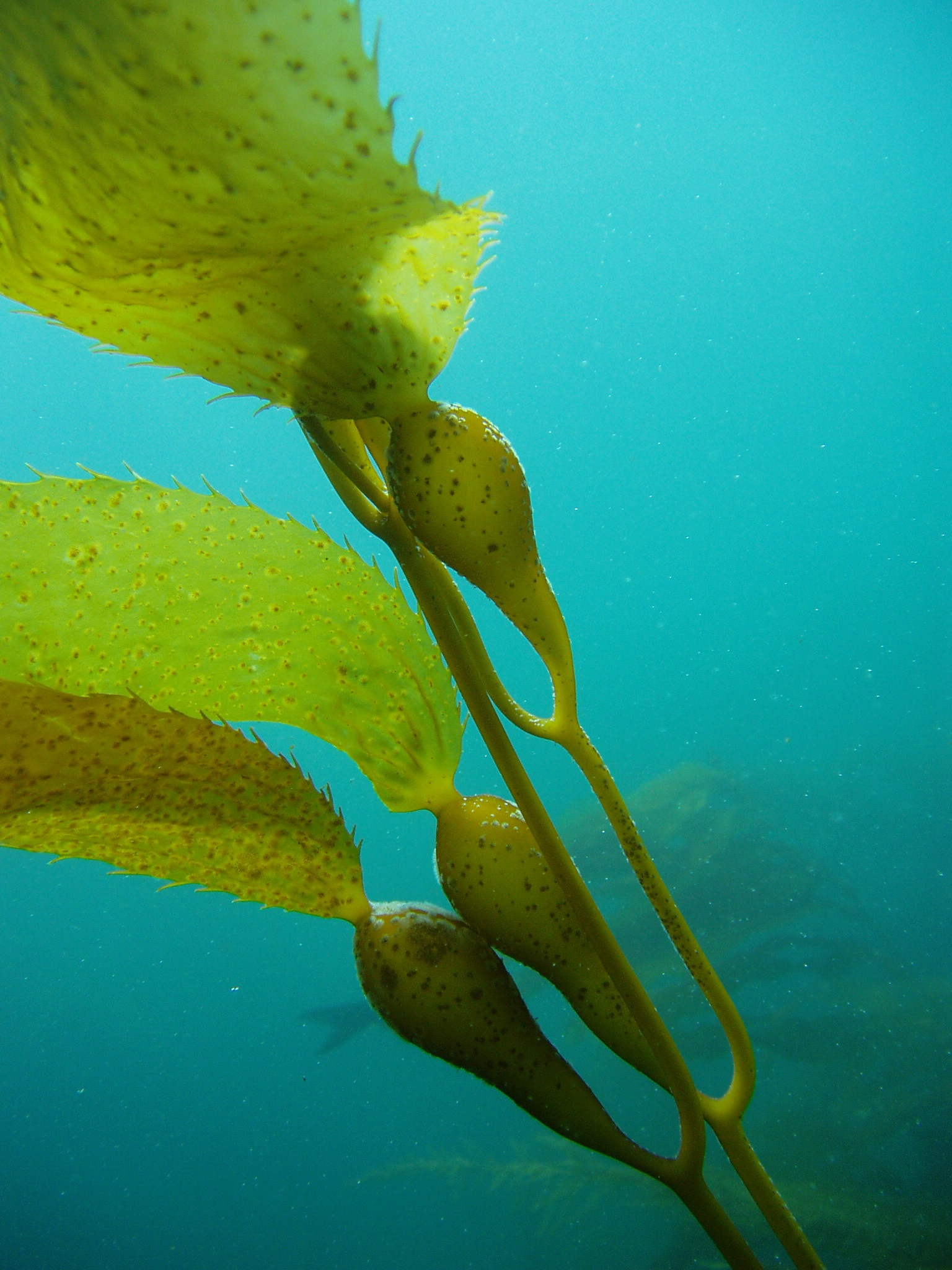 Giant kelp (Macrocystis pyrifera). California Channel Islands NMS.